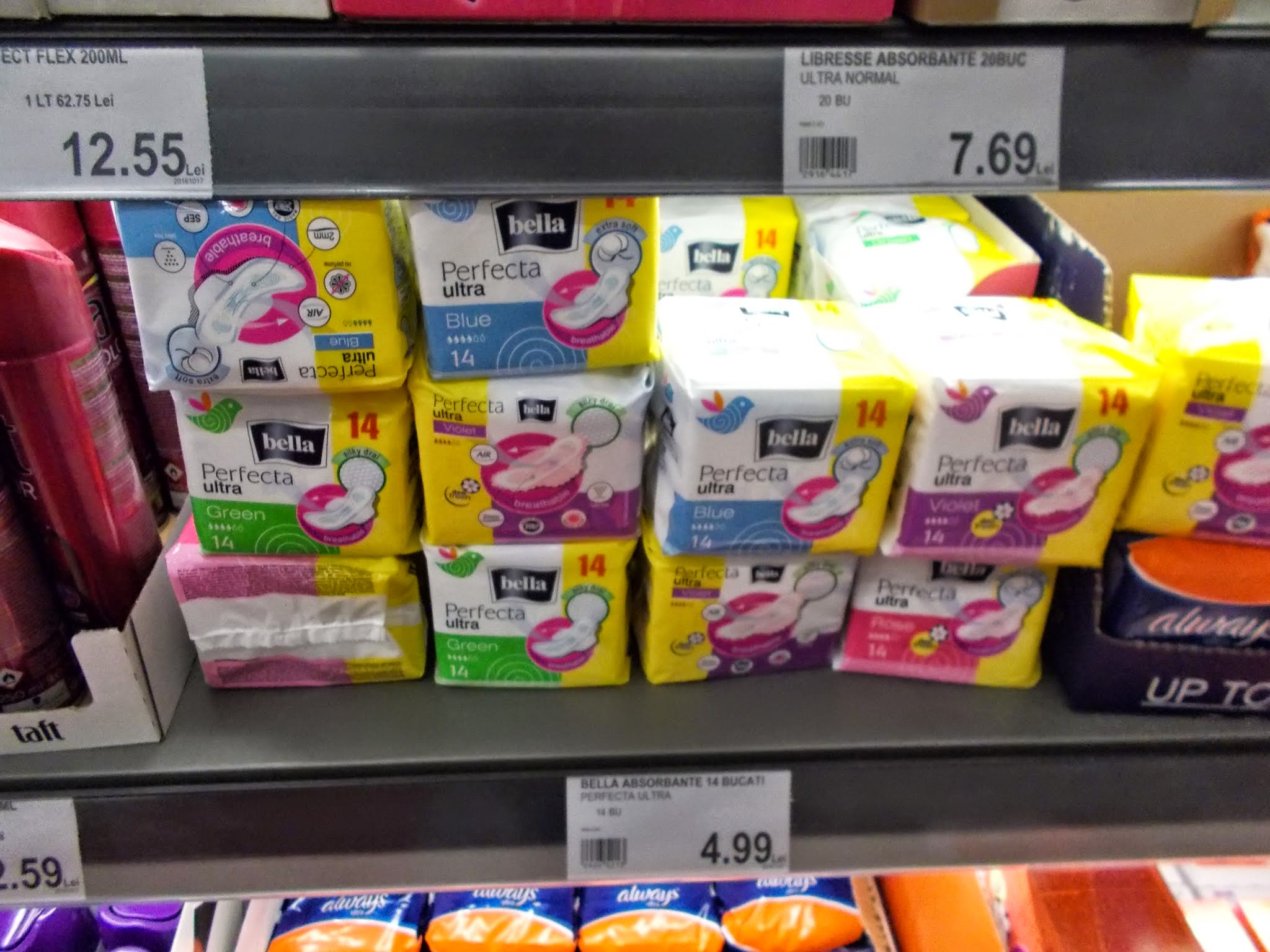 bella